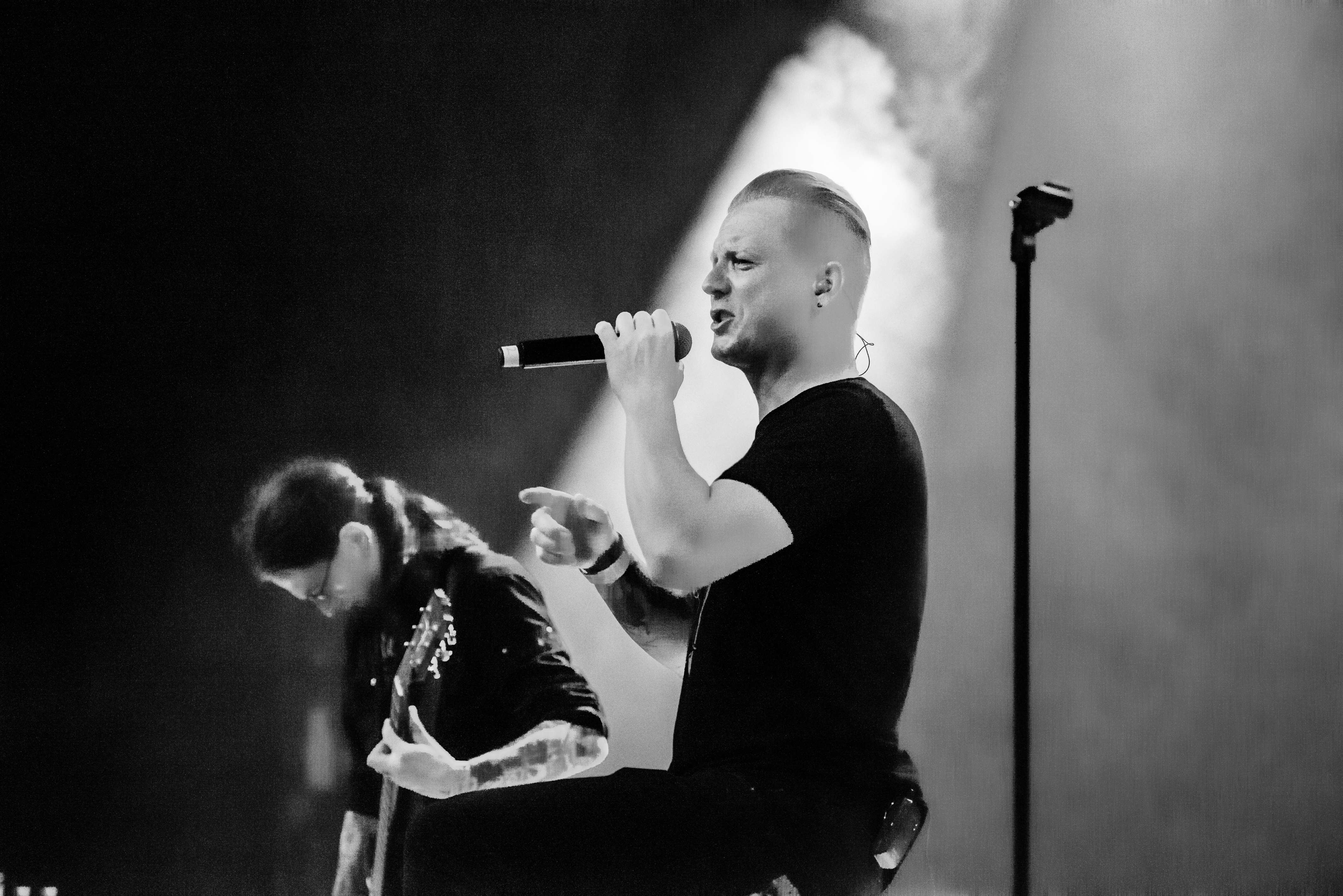 Ewigheim; Amphi festival 2016